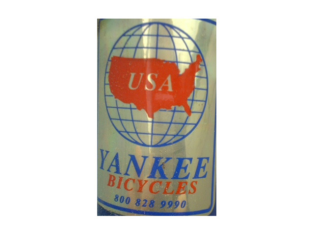 Headbadge used on Yankee Bicycles produced by the Yankee Bicycle Company.